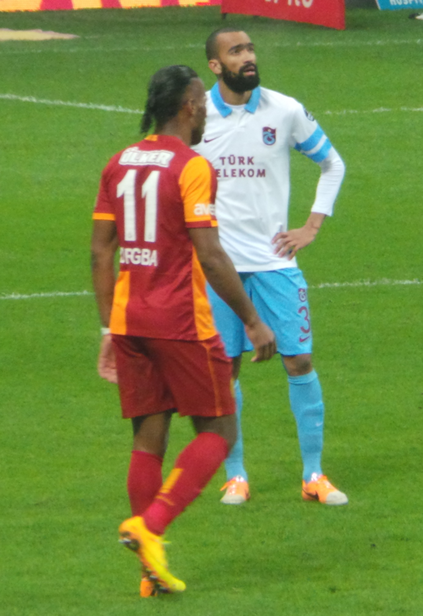 José Bosingwa with his old teammate Didier Drogba